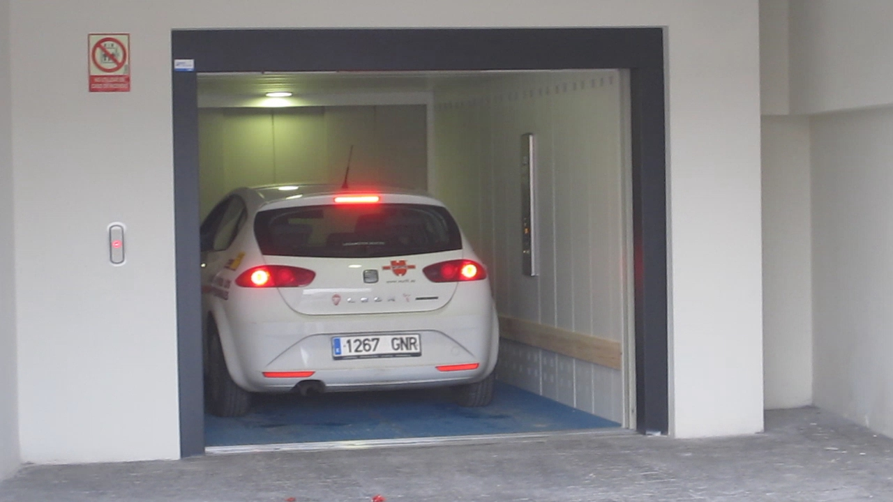 Not sure I'd go in there myself... :-P